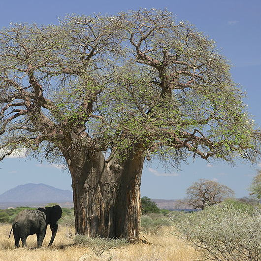 A square crop of File:Baobab and elephant, Tanzania .jpg, for use on the cover of Book:Big Trees, which functions best with square images.